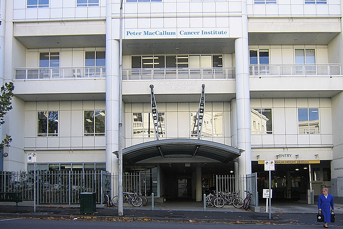 Peter MacCallum Cancer Institute, mfunnell, 04JUN2004